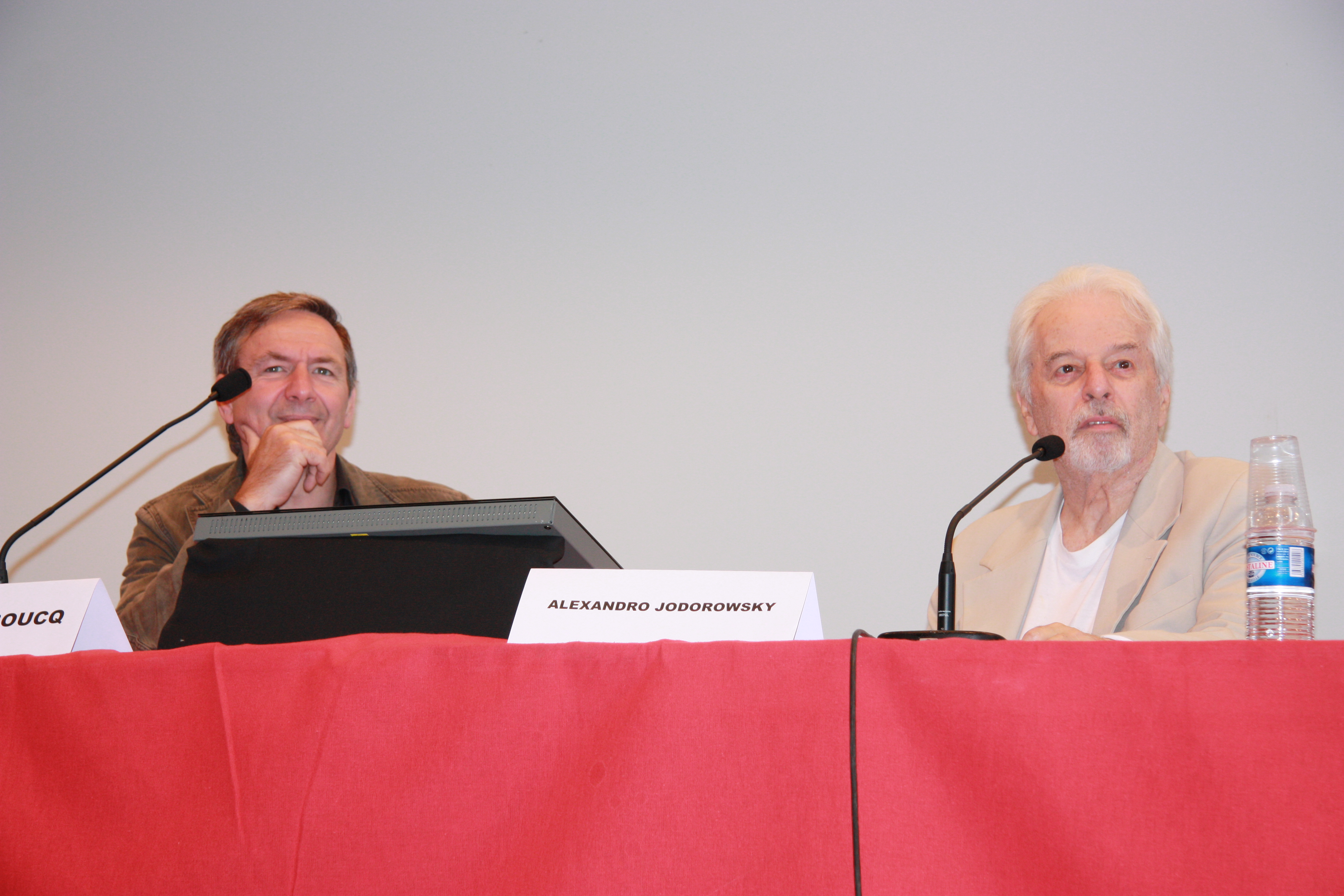 Conference with Alejandro Jodorowsky and François Boucq at Japan Expo 2008 (Paris, France)